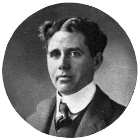 Willie Smith, the U.S. Open champion in 1899.